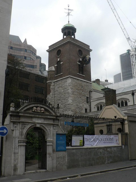 City parish churches: St. Olave Hart Street, near to City of London, Great Britain. St. Olave's survived the Great Fire of 1666 but was not so fortunate in the Second World War, when it suffered extensive damage and was subsequently restored.